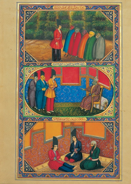 Illustration from Persian version of "One Thousand and One Nights"